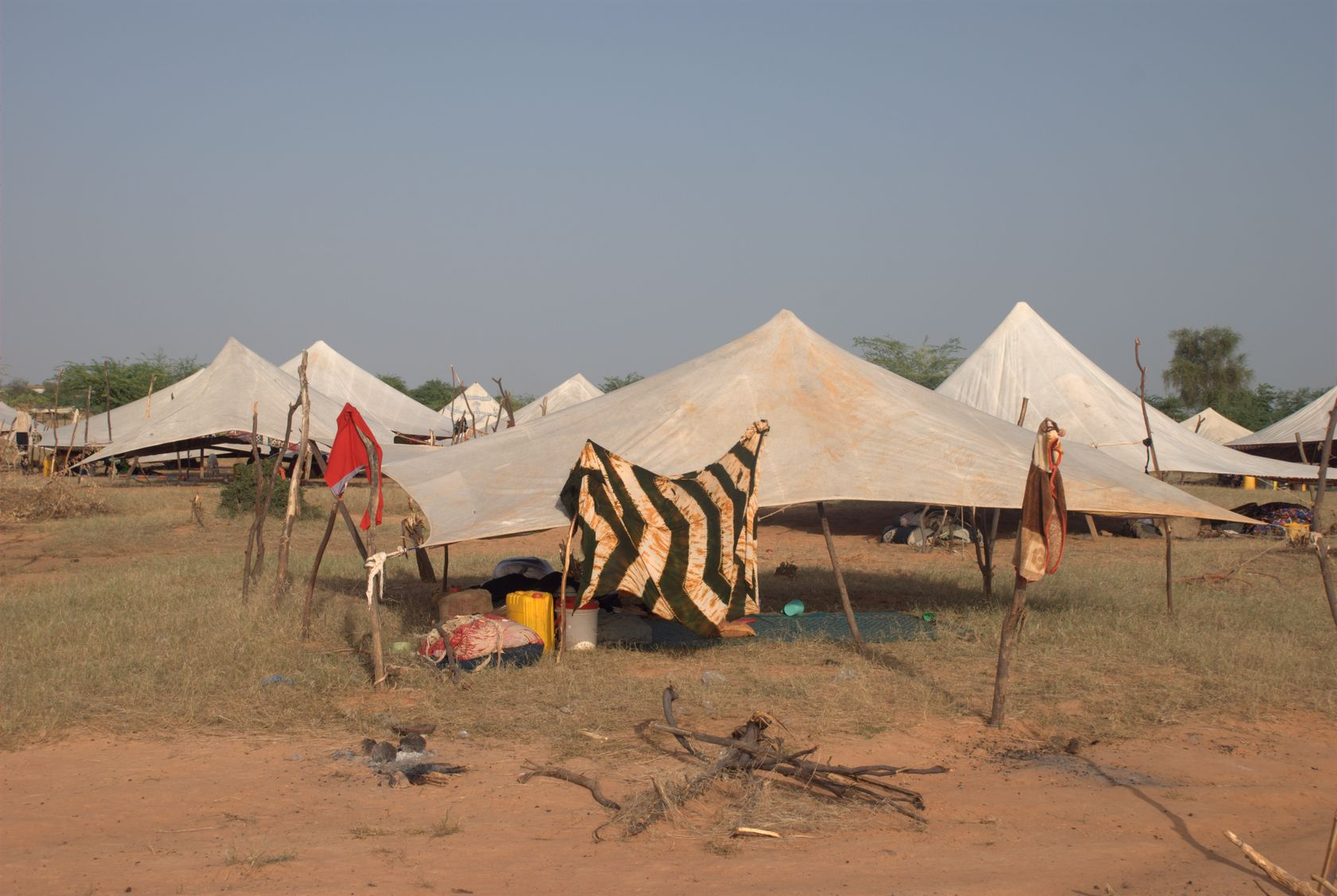 Kaédi, Mauritania, tents north of town